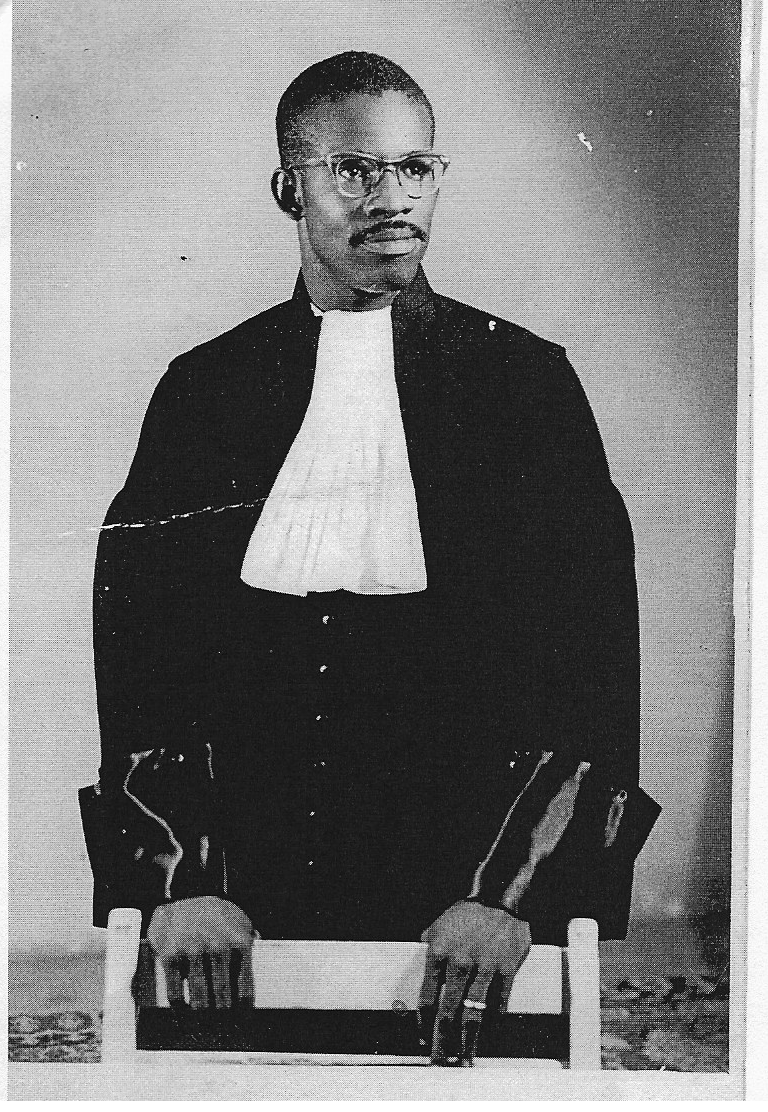 Diederick C. Mathew as a young law student in Aruba.